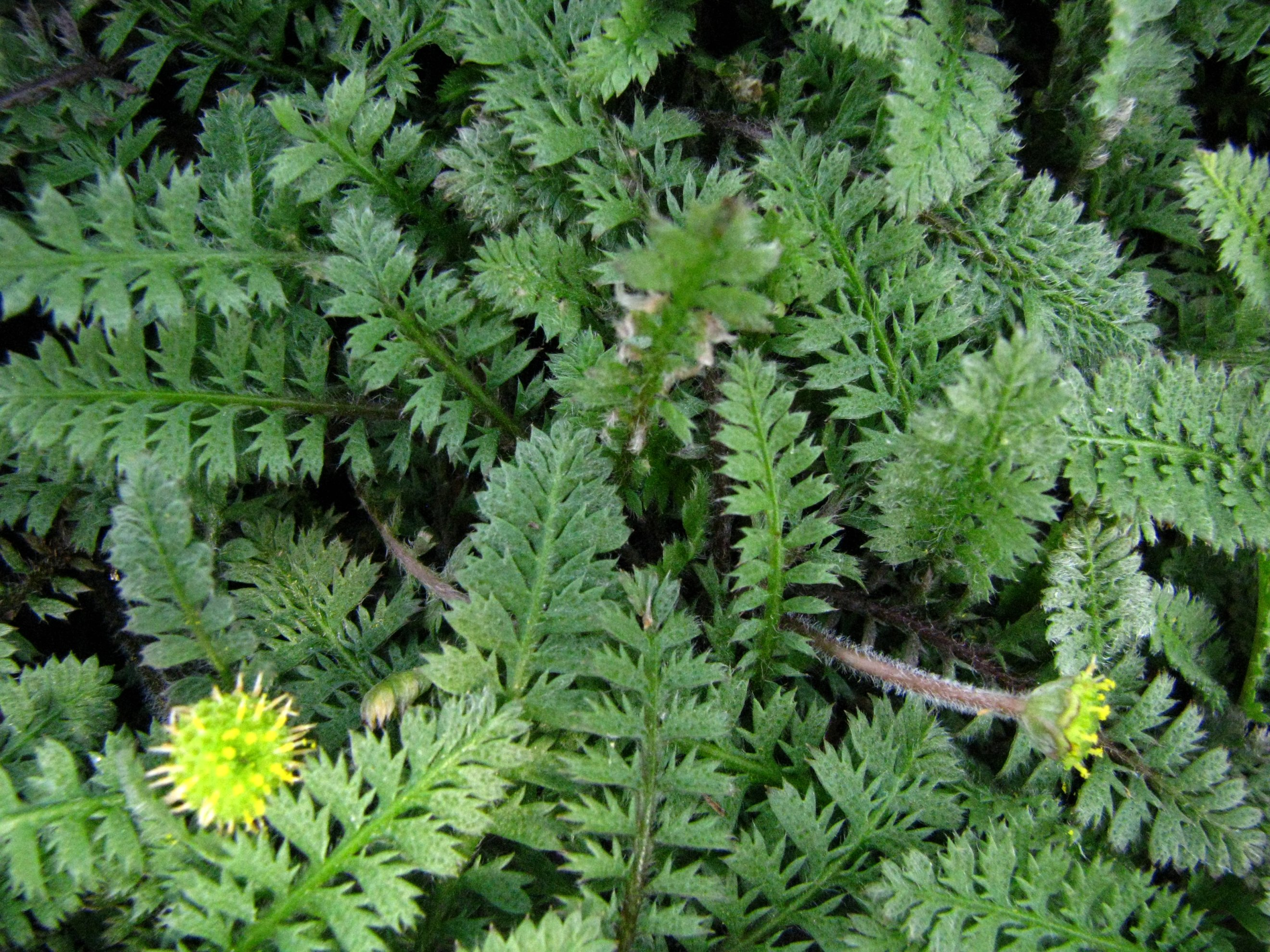 New Zealand brass buttons Asteraceae Oregon (Cultivated)